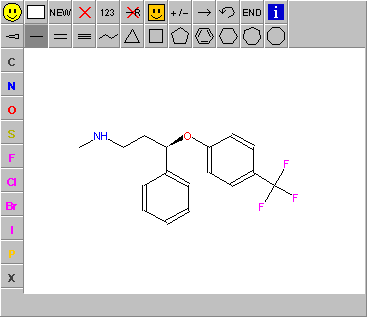 JME Editor screenshot